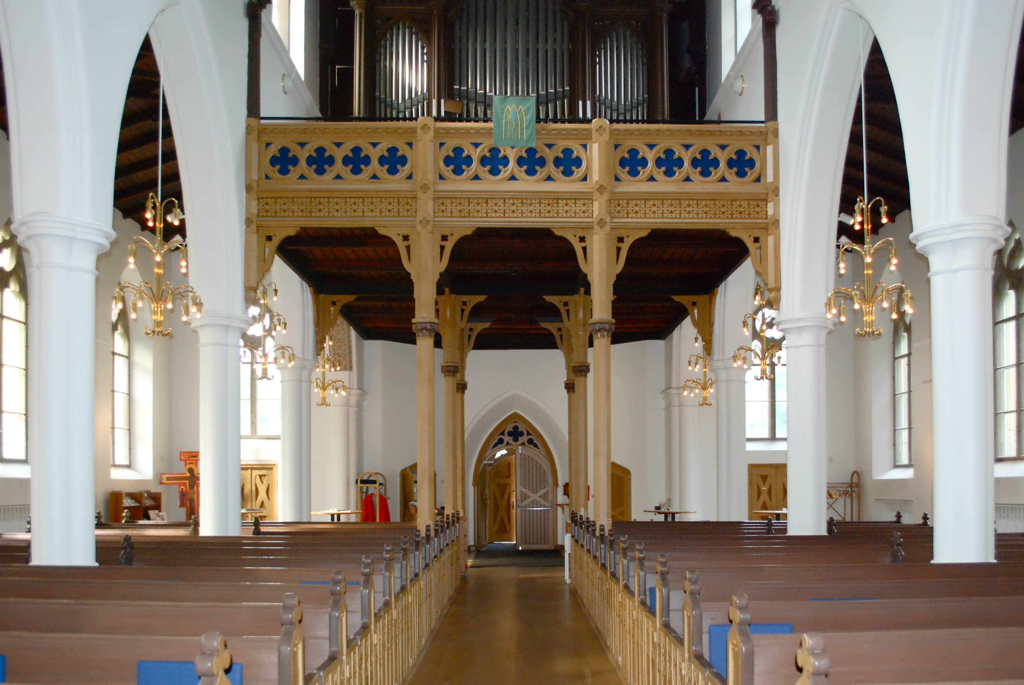 Hagakyrkan